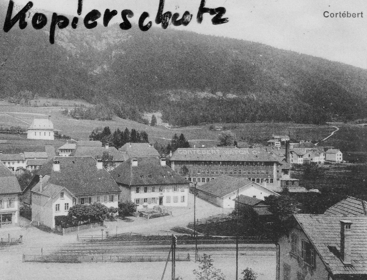 Cortebert Watch factory around 1925